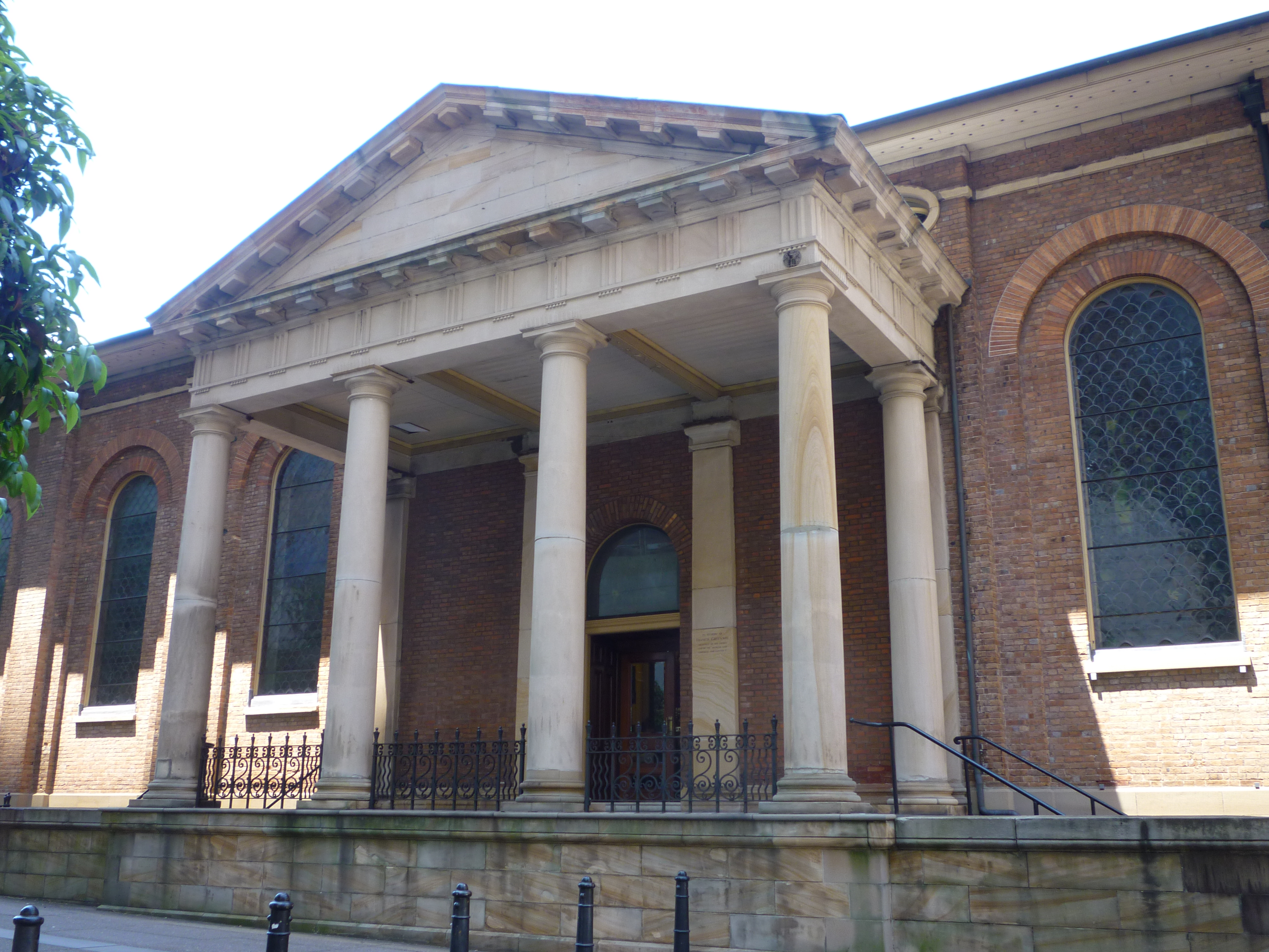 St James' Church, Sydney - north portico in classical style